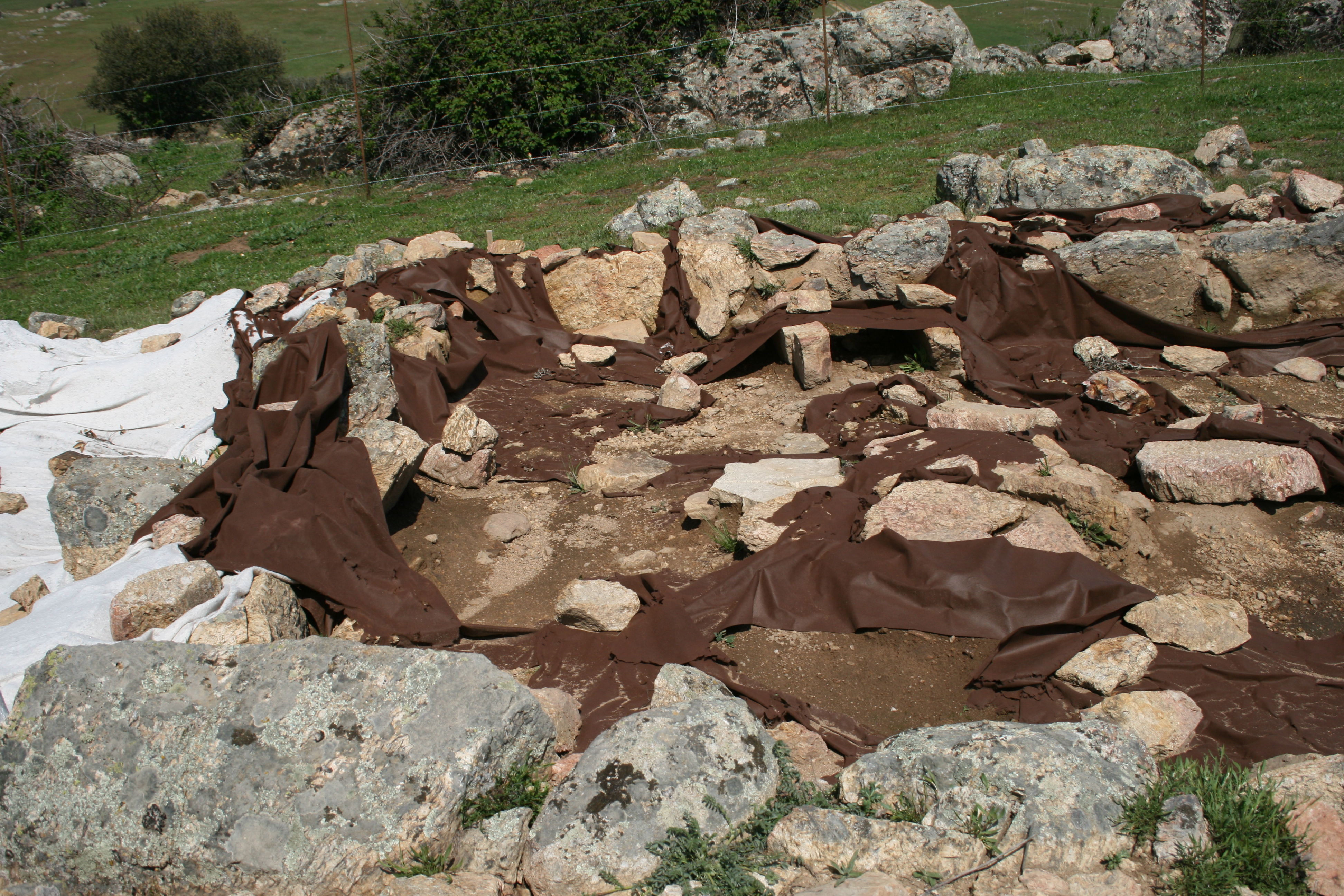 Forge place. Visigothic settlement, 6th and 7th centuries. Dehesa de Navalvillar. Colmenar Viejo, Madrid.